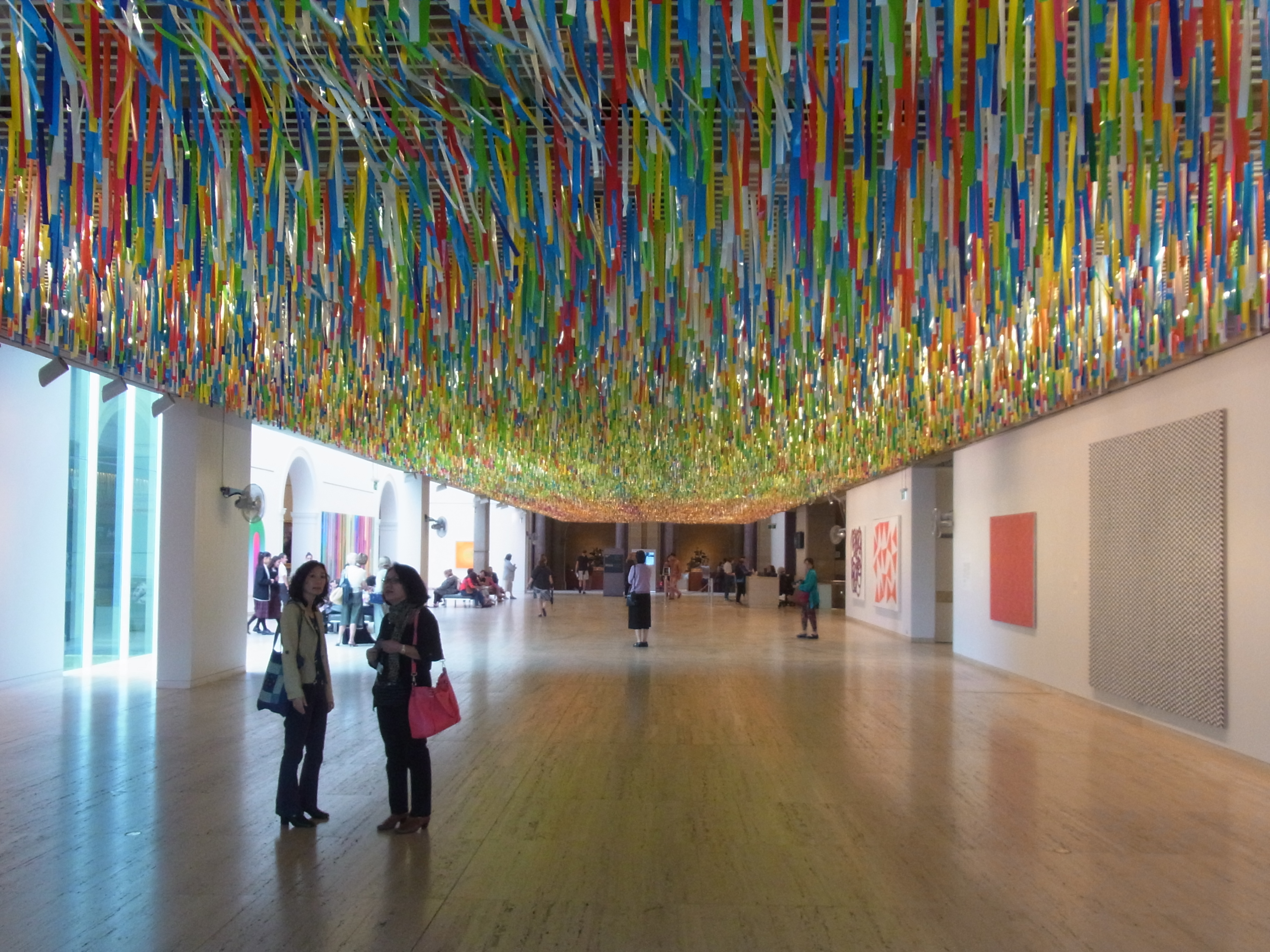 AGNSW Sydney, main court built as part of 1972 Captain Cook Wing and lengthened by 1988 Bicentennial Wing. Photo in 2014 showing ceiling hung work 'Rally 2014' by Nike Savvas